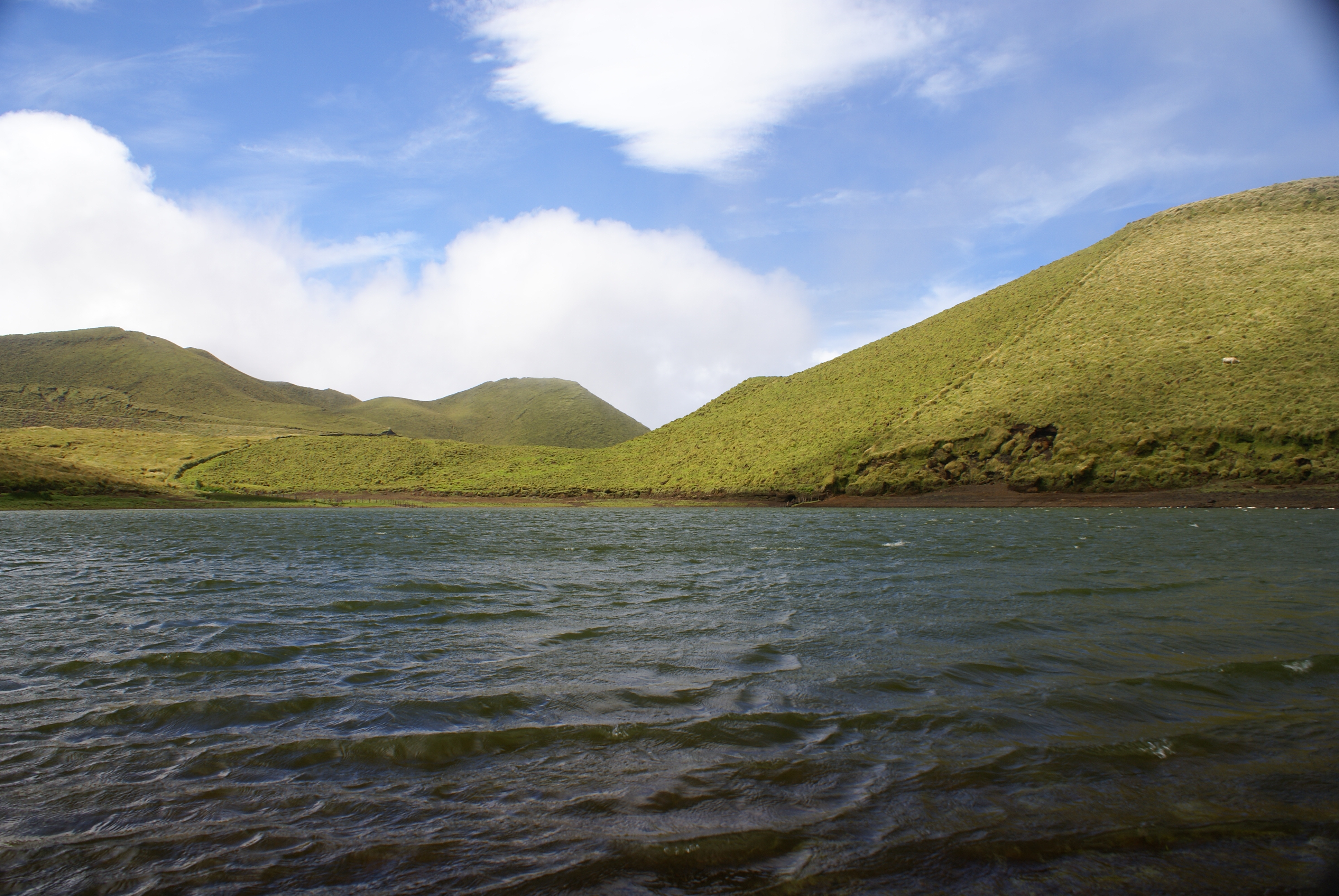 Lagoa do Peixinho, municipality of São Roque do Pico, island of Pico, Azores, Portugal